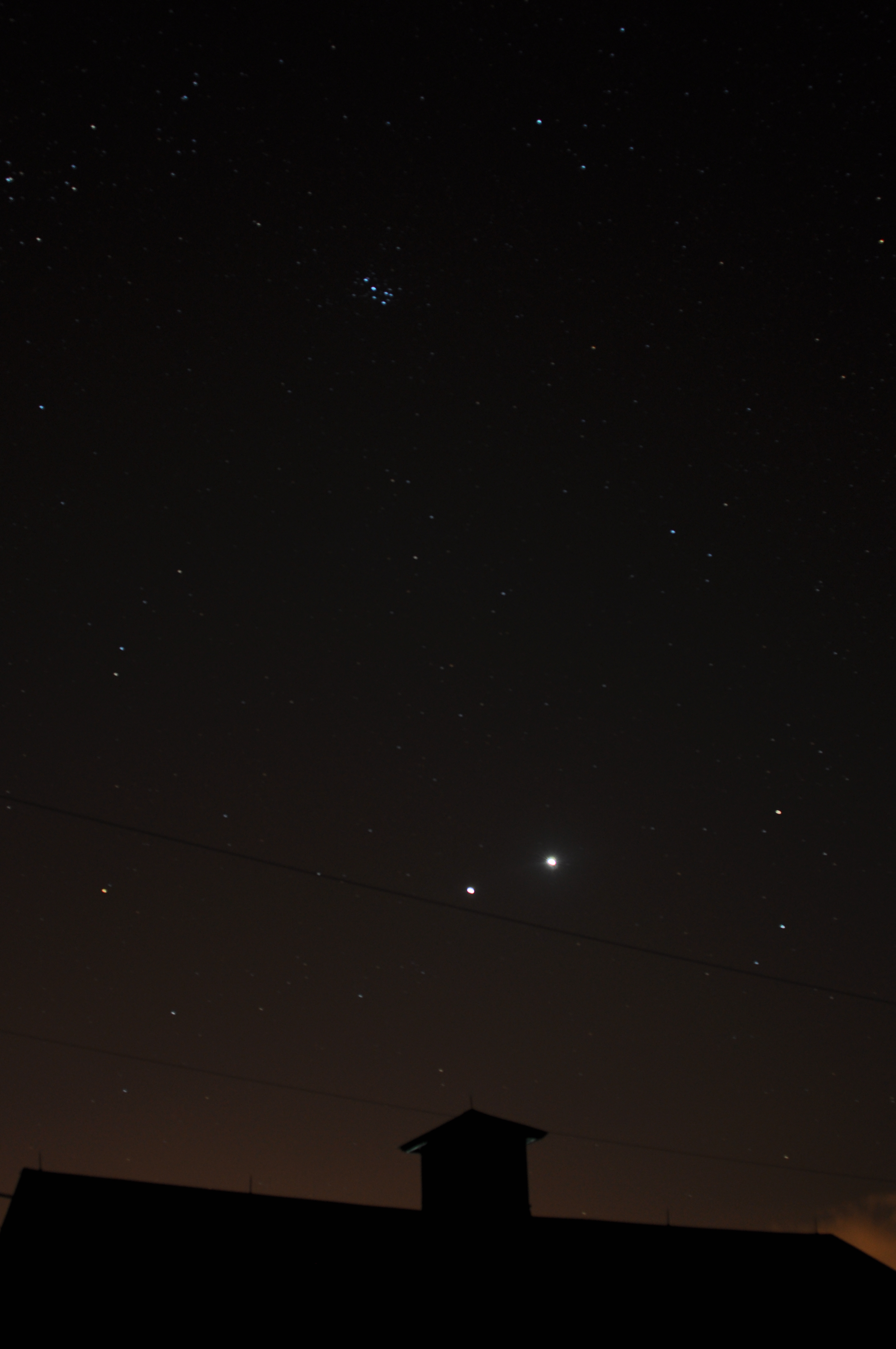 Conjunction of Jupiter and Venus in the western sky over southeastern New York, USA.